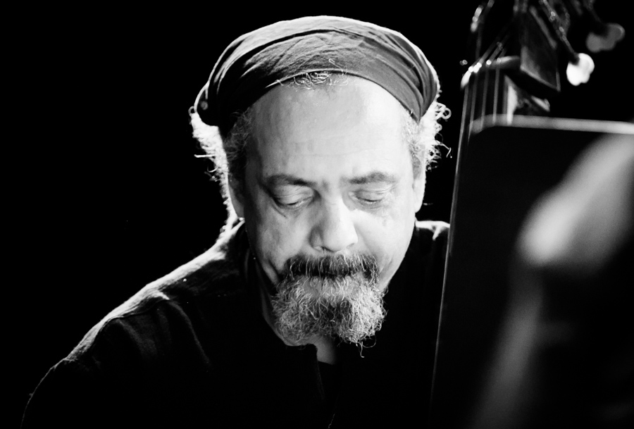 Jaribu Shahid with Art Ensemble of Chicago at the stage of Energimølla. The concert was part of Kongsberg Jazzfestival and took place on 07. July 2017. Lineup: Roscoe Mitchell (saxophone) Hugh Ragin (trumpet) Jaribu Shahid (double bass) Don Moye (drums)